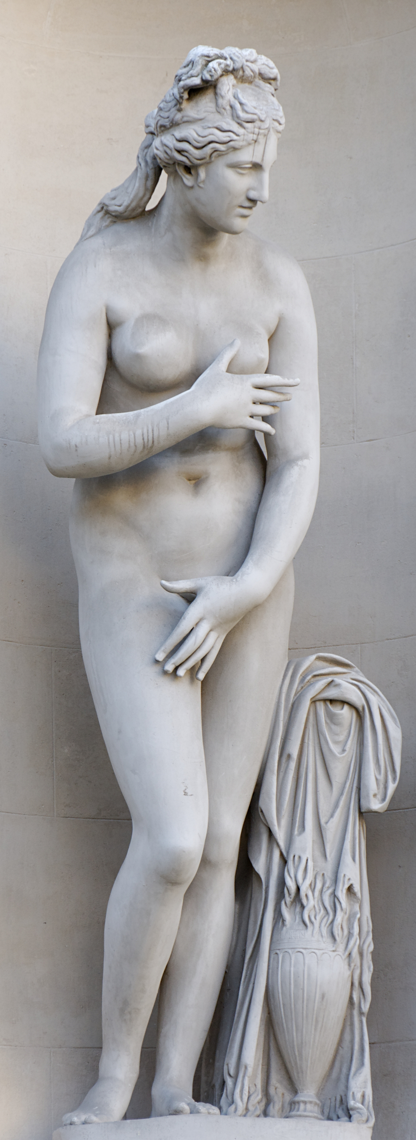 Capitoline Venus. Plaster cast after the antique prototype now in the Musei Capitolini, 4th century BC.